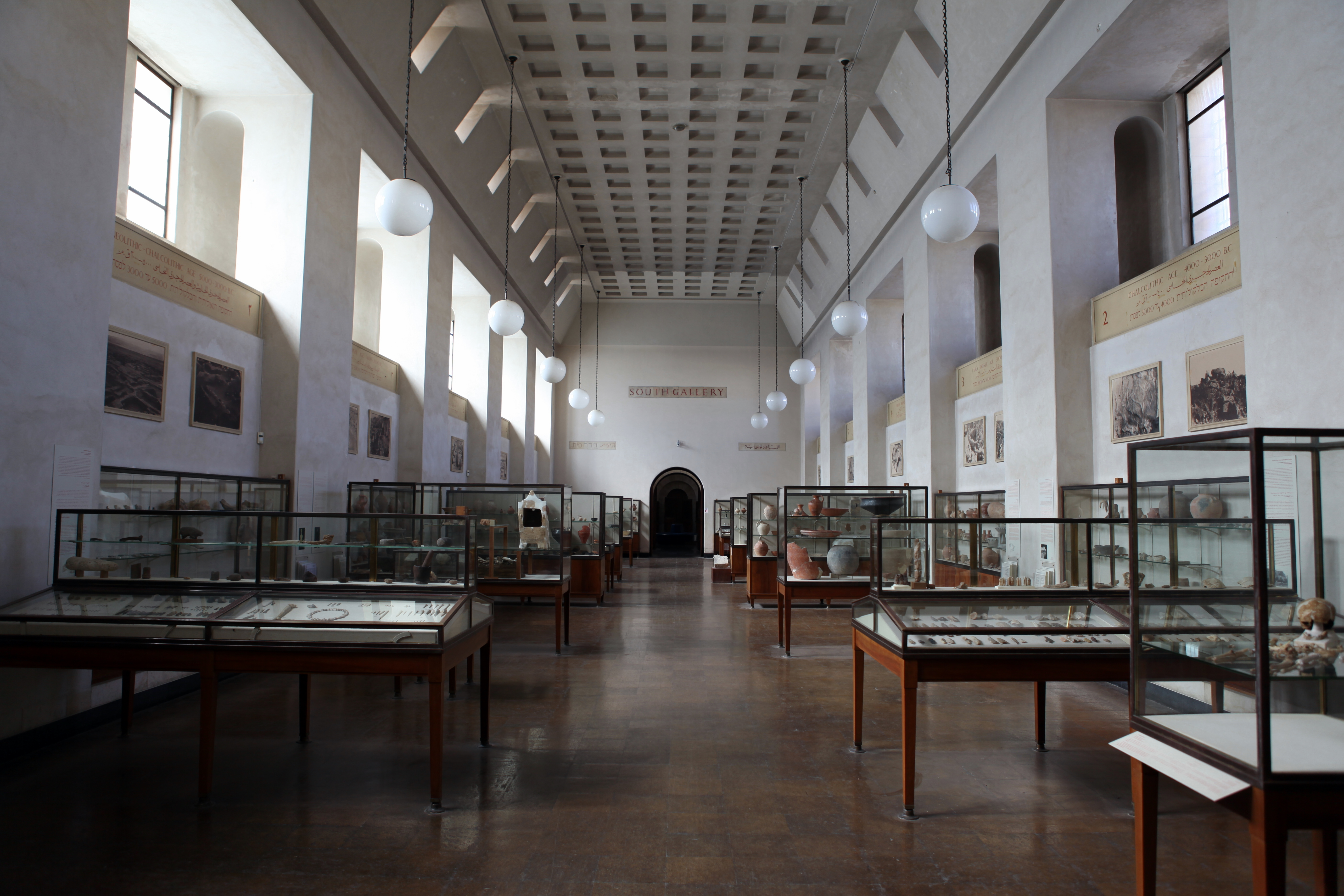 Education in Israel